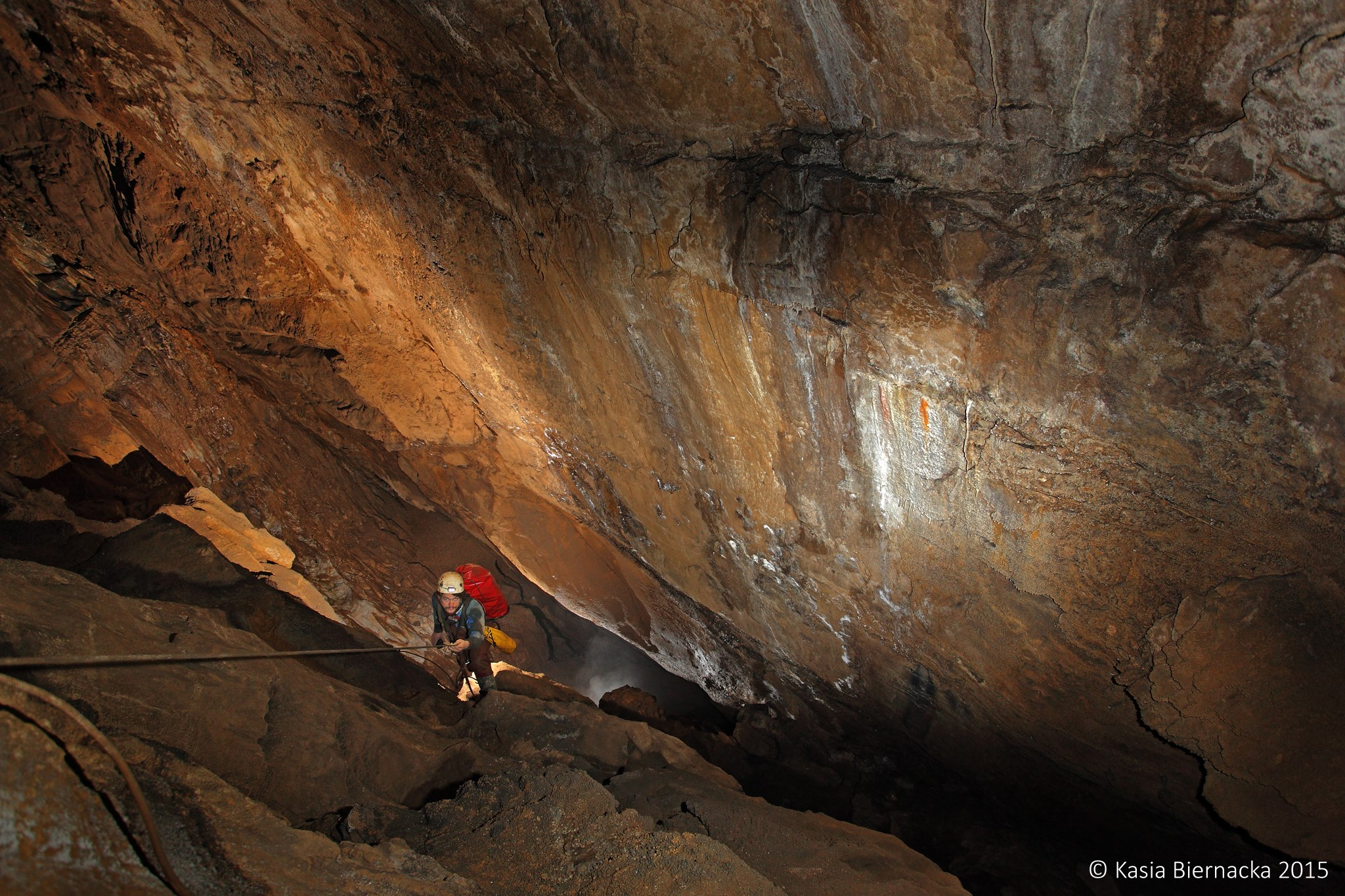 Rappelling pit in Sistema Huautla